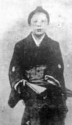 a Japanese woman お登勢 (Otose)